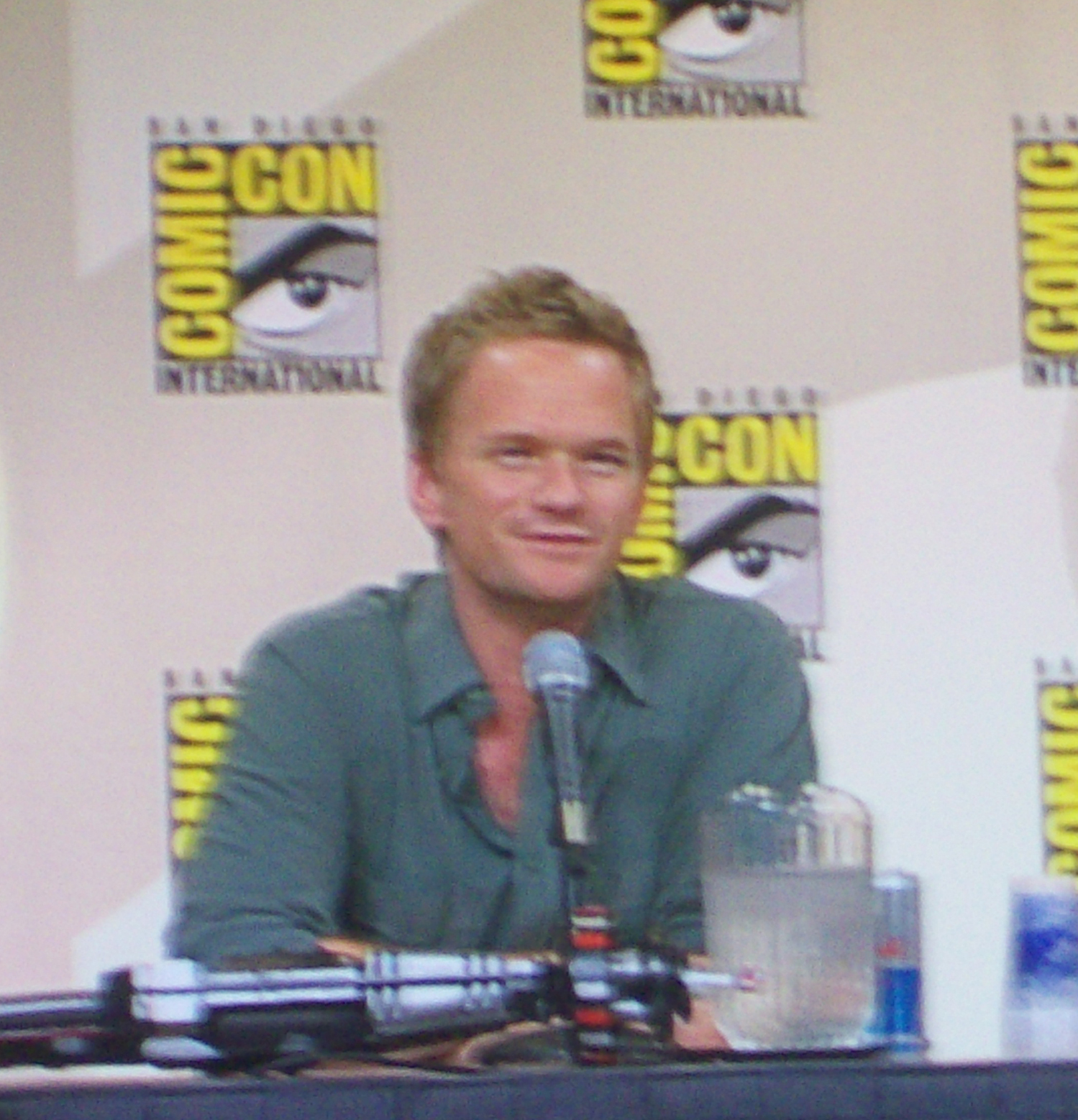 Neil Patrick Harris at the 2008 San Diego Comic Con.